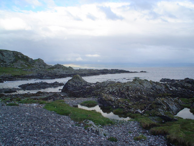 Bay at Port Righ. Small bay at Port Righ, near Carradale, Kintyre